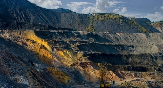 ĐôngTriều